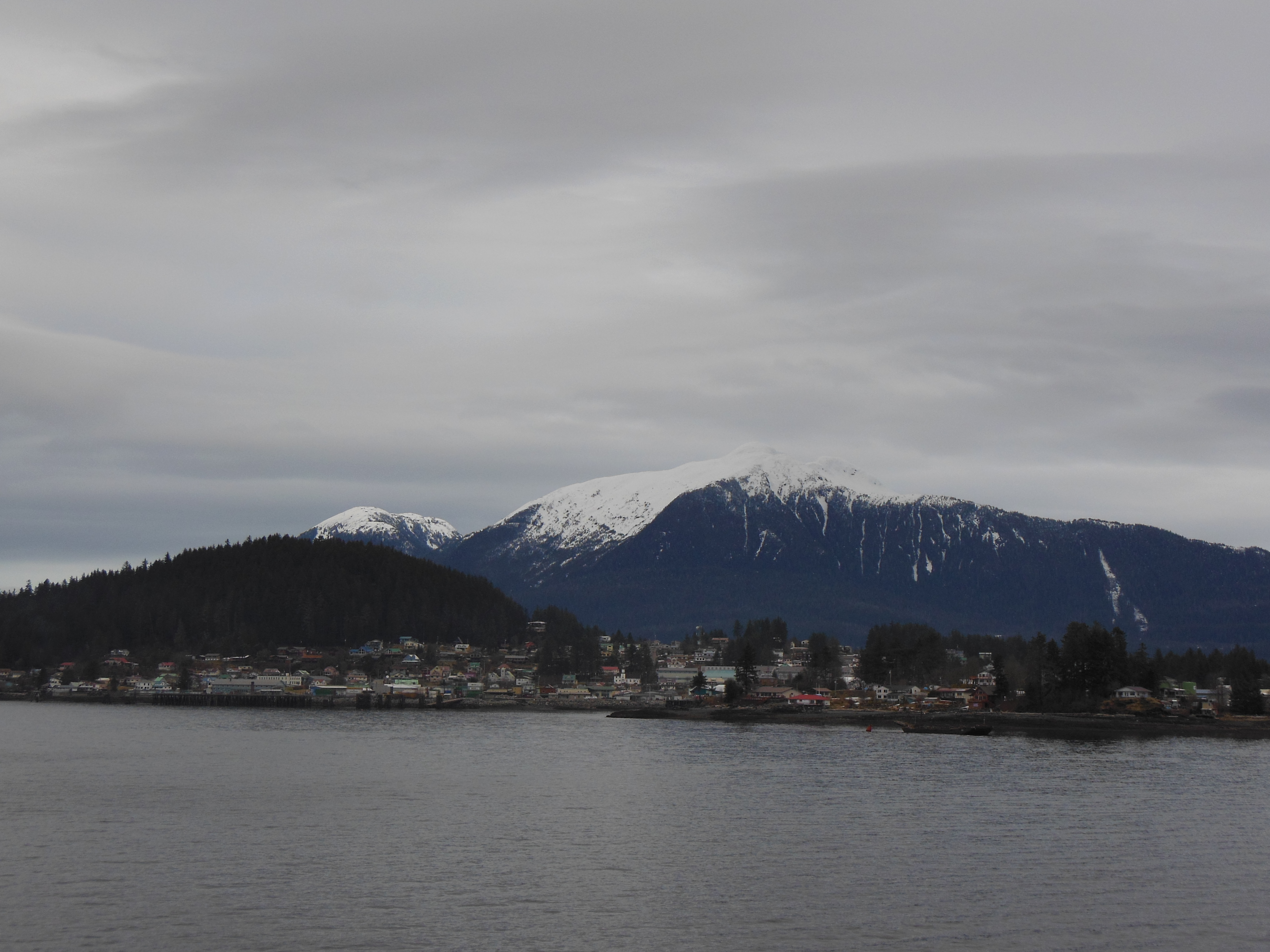 The city of Wrangell, Alaska, from an approaching ferry boat